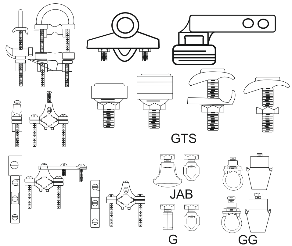 Mechanical drawing of Grounding connectors types:GTS,JAB,G,GG TU-GO/EF